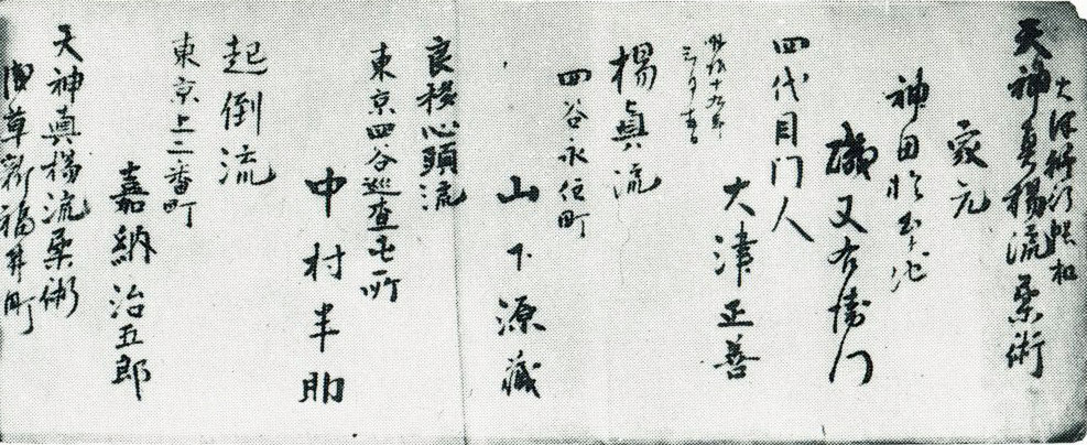 Iso Masatomo aka Iso Matauemon, the third Iemoto of Tenjin Shinyo-ryu (1818-1881), Kanda Otamagaike, Tokyo, Japan. From the roll book of Tenjin Shinyo-ryu.